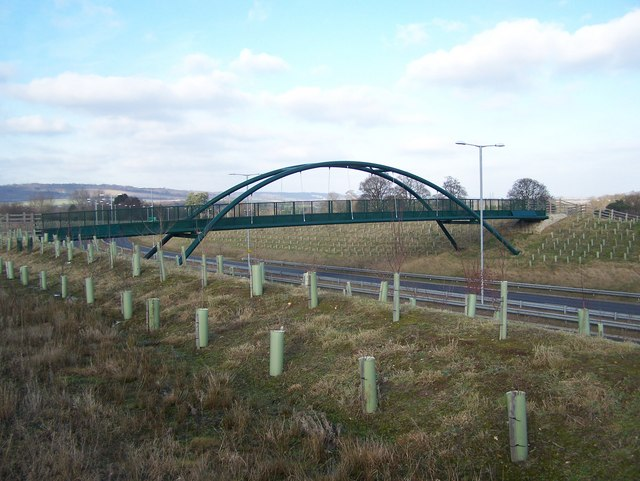 Horse bridge over A228 West Malling By-pass